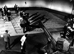 Leonard Bernstein during a lecture on his first appearance on Omnibus.